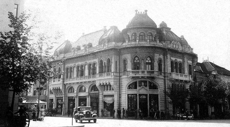 Building that was built and property of Toma T. Socolescu, located in n°2 strada Stefan cel Mare, Ploieşti, Romania. He lived in until 1944 american bombings of the ciy which heavily destroyed the corner of the building. The latter is today totally transformed. The building still belongs to Socolescu family. We are the only heirs and descendants of Toma T. Socolescu (died in 1960 in Bucharest) and therefore owner of all his intellectual rights.